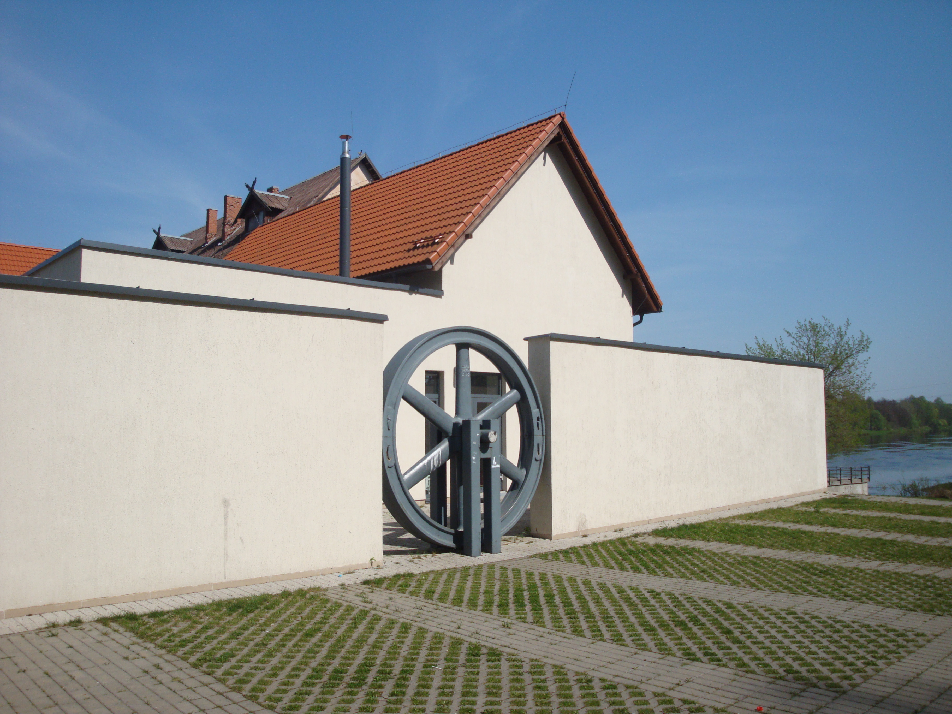 Prienai-town in Lithuania. Former water mill. Presently Tourist Information Centre